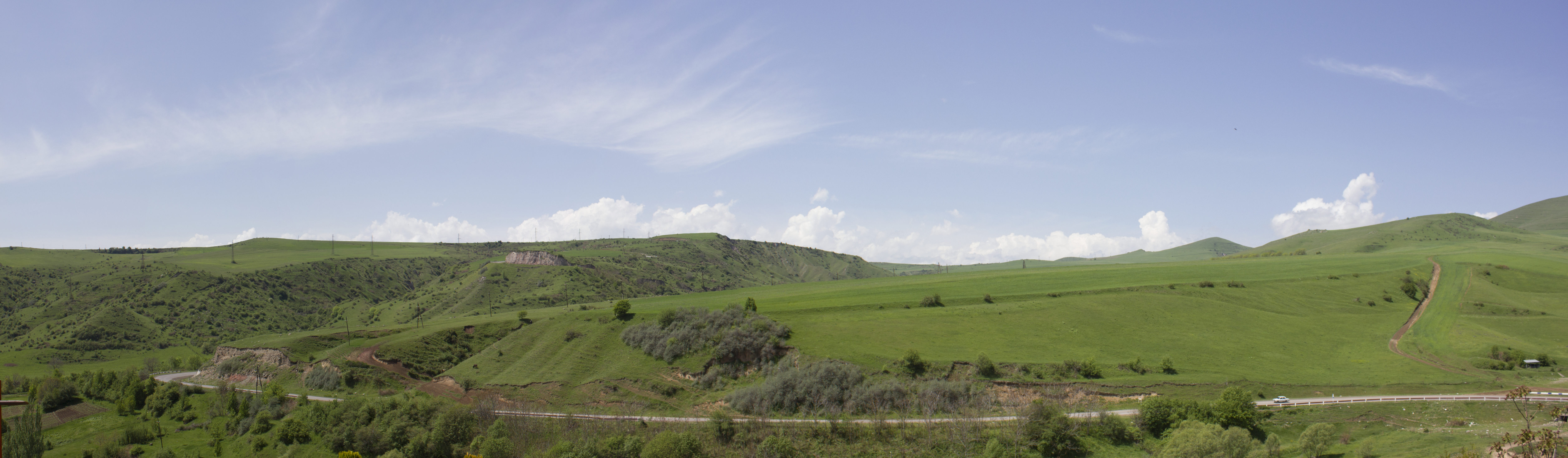 Panorama from syunik province